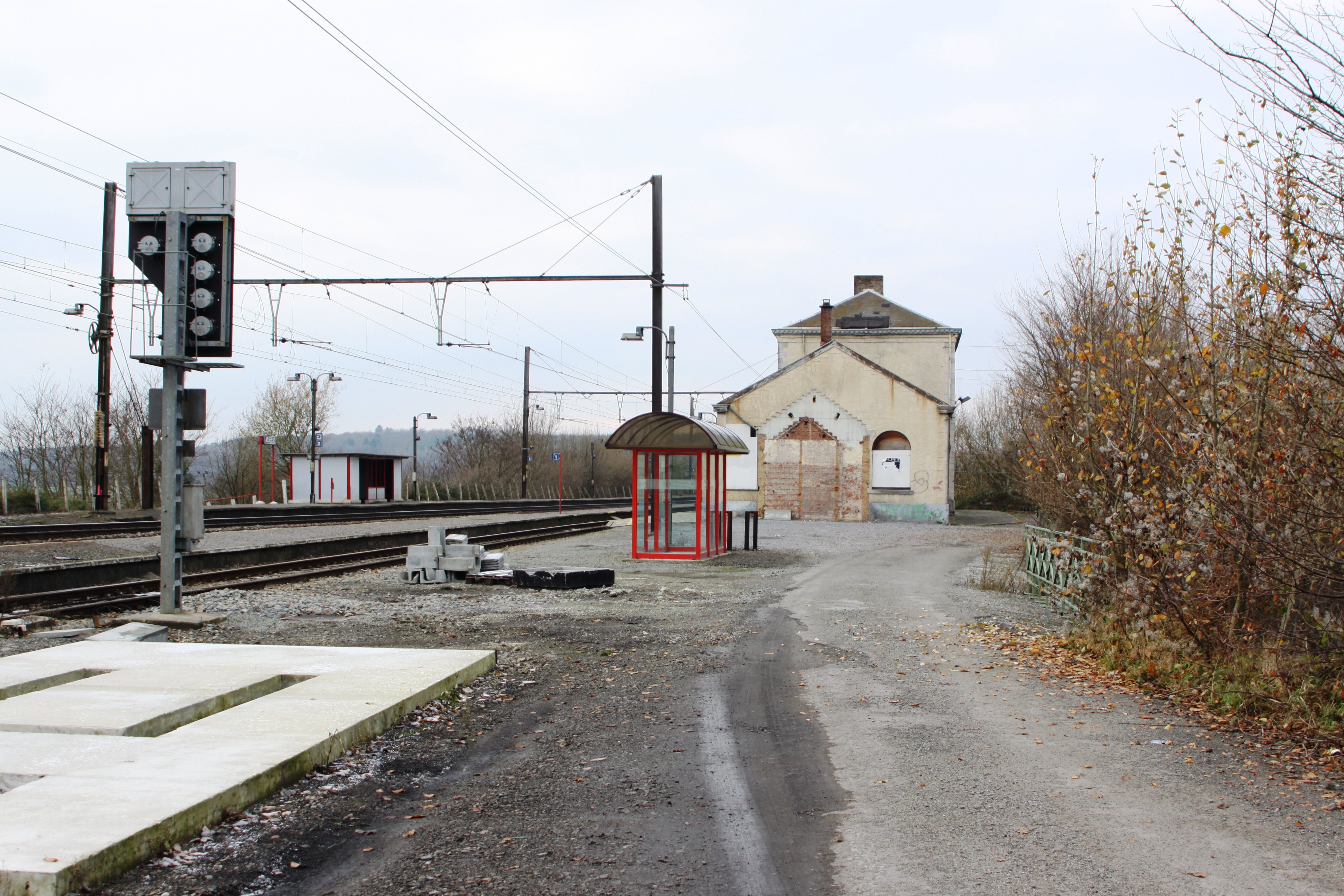 Train station Assesse on the line 162